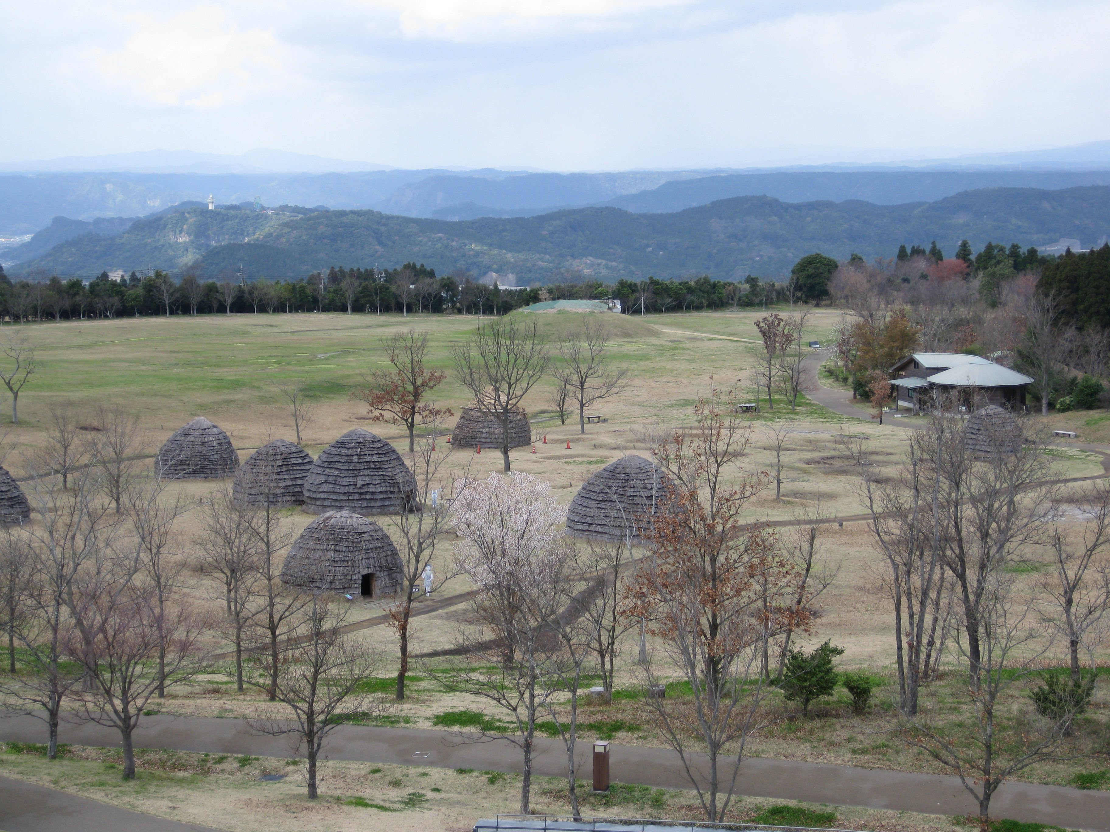 Restored Jōmon period Village of Uenohara Remains in Kagoshima, Japan